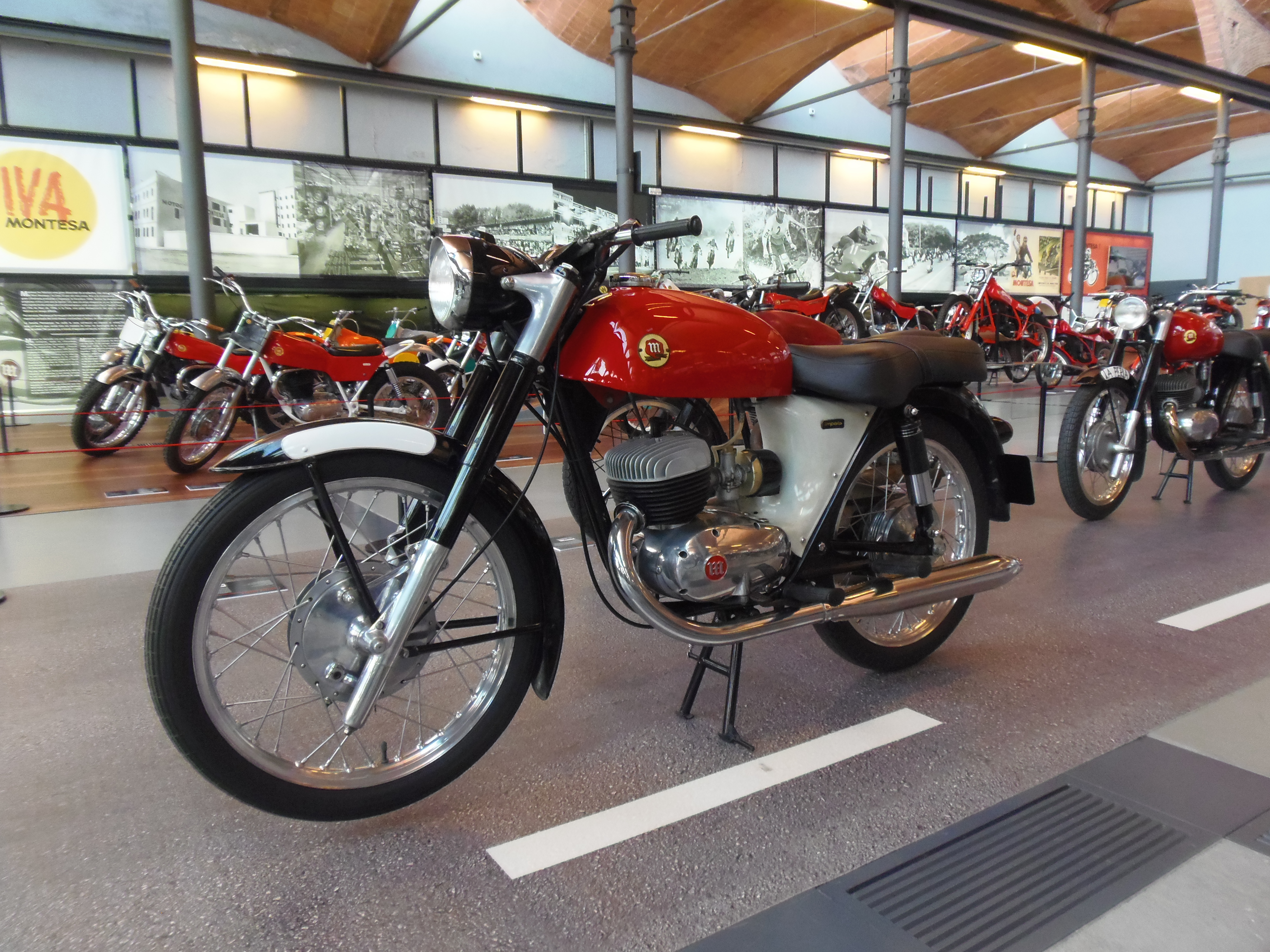 Montesa Impala Turismo 175, 1962